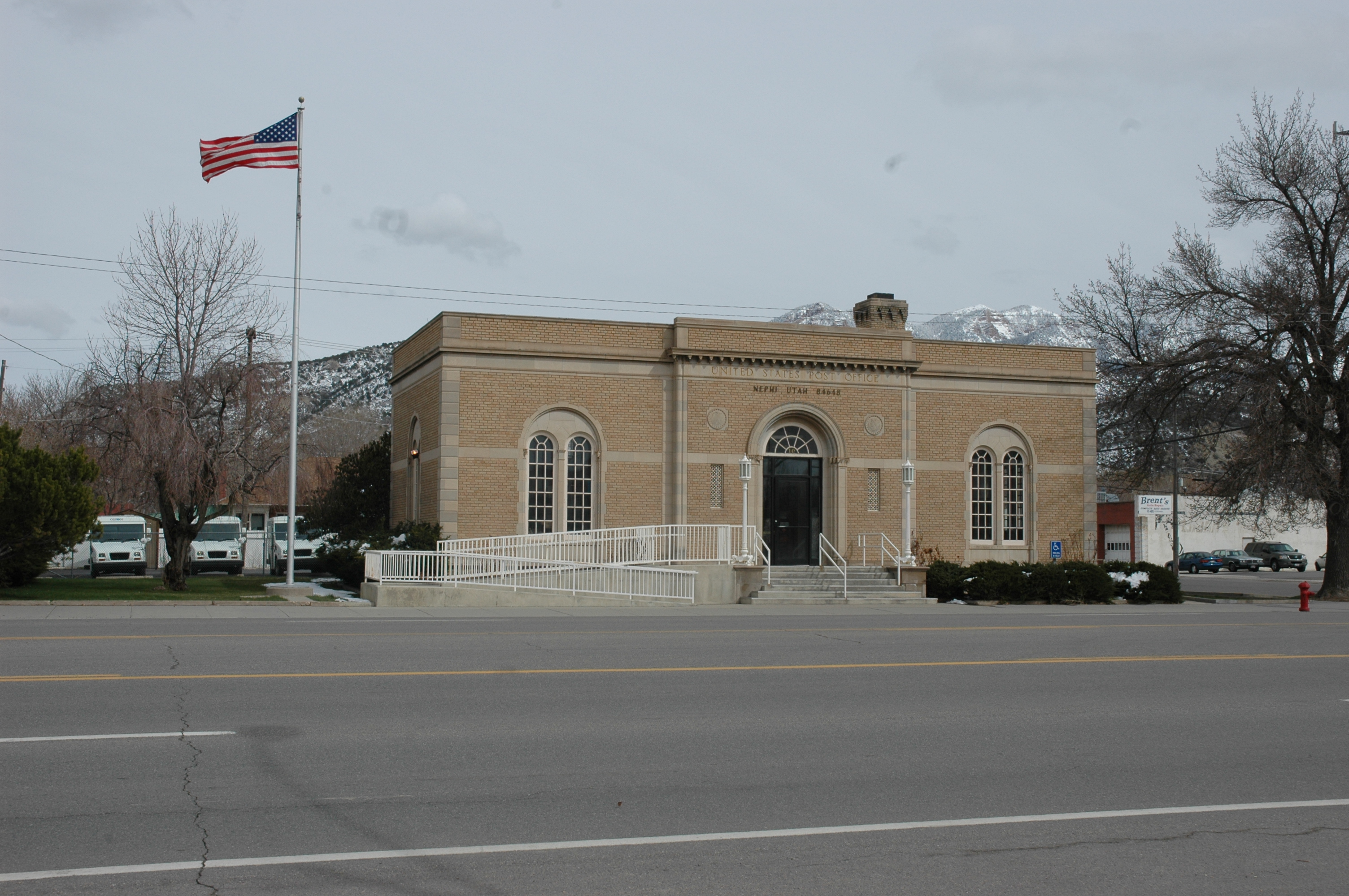 The old Nephi post office, a historic building in Nephi, Utah, United States.